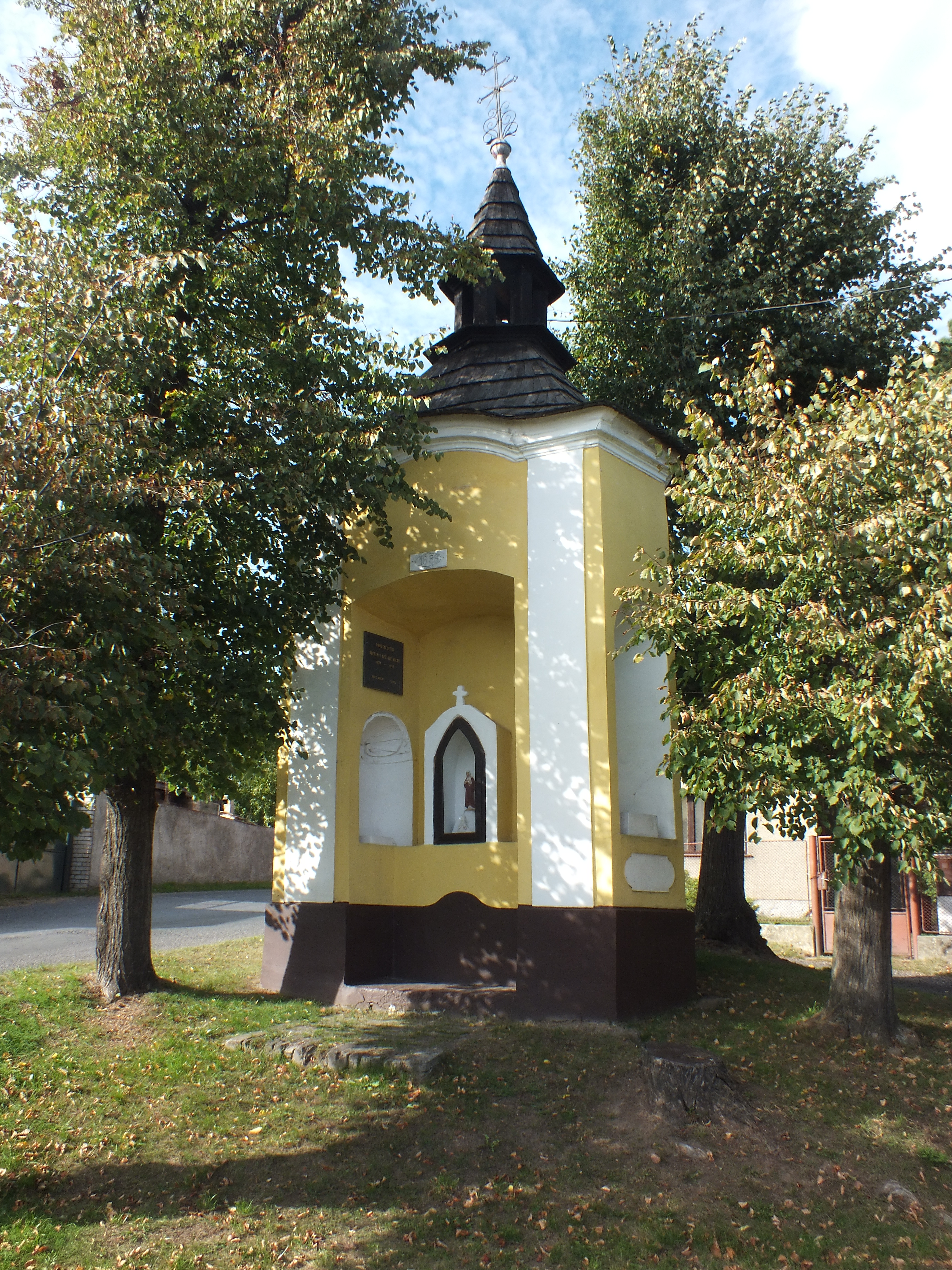 The chapel in Občov